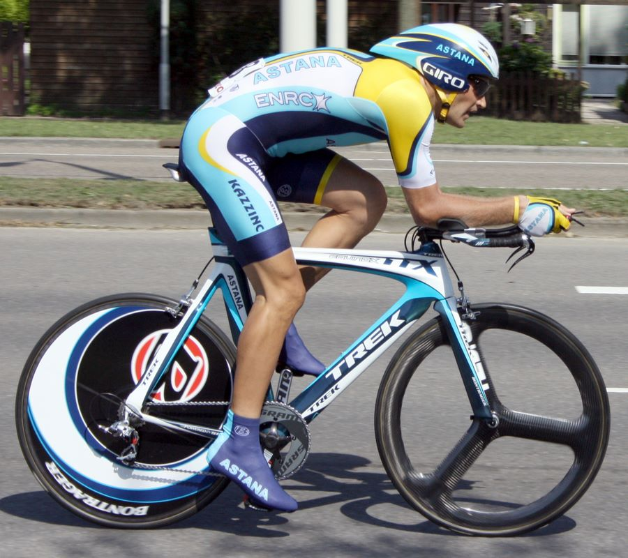 Tomas Vaitkus at the 2009 Eneco Tour prologue